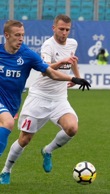 Ventsislav Hristov (R) with FC SKA-Khabarovsk in a game against FC Dynamo Moscow.